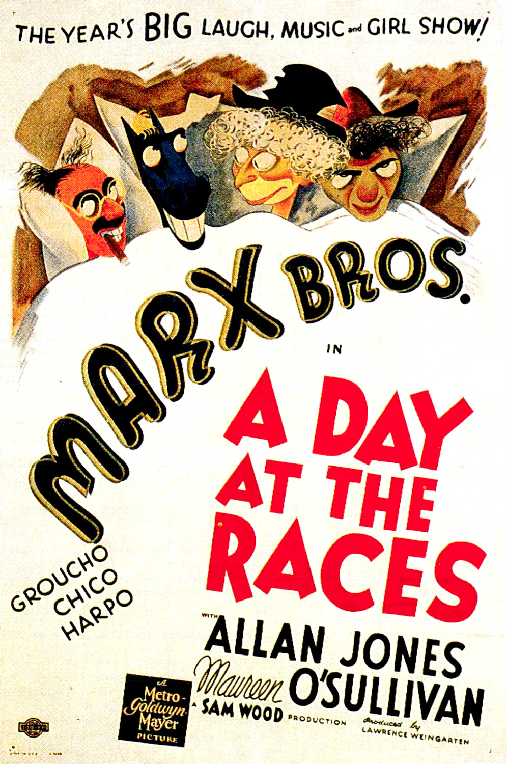 Poster for the 1937 film A Day at the Races.